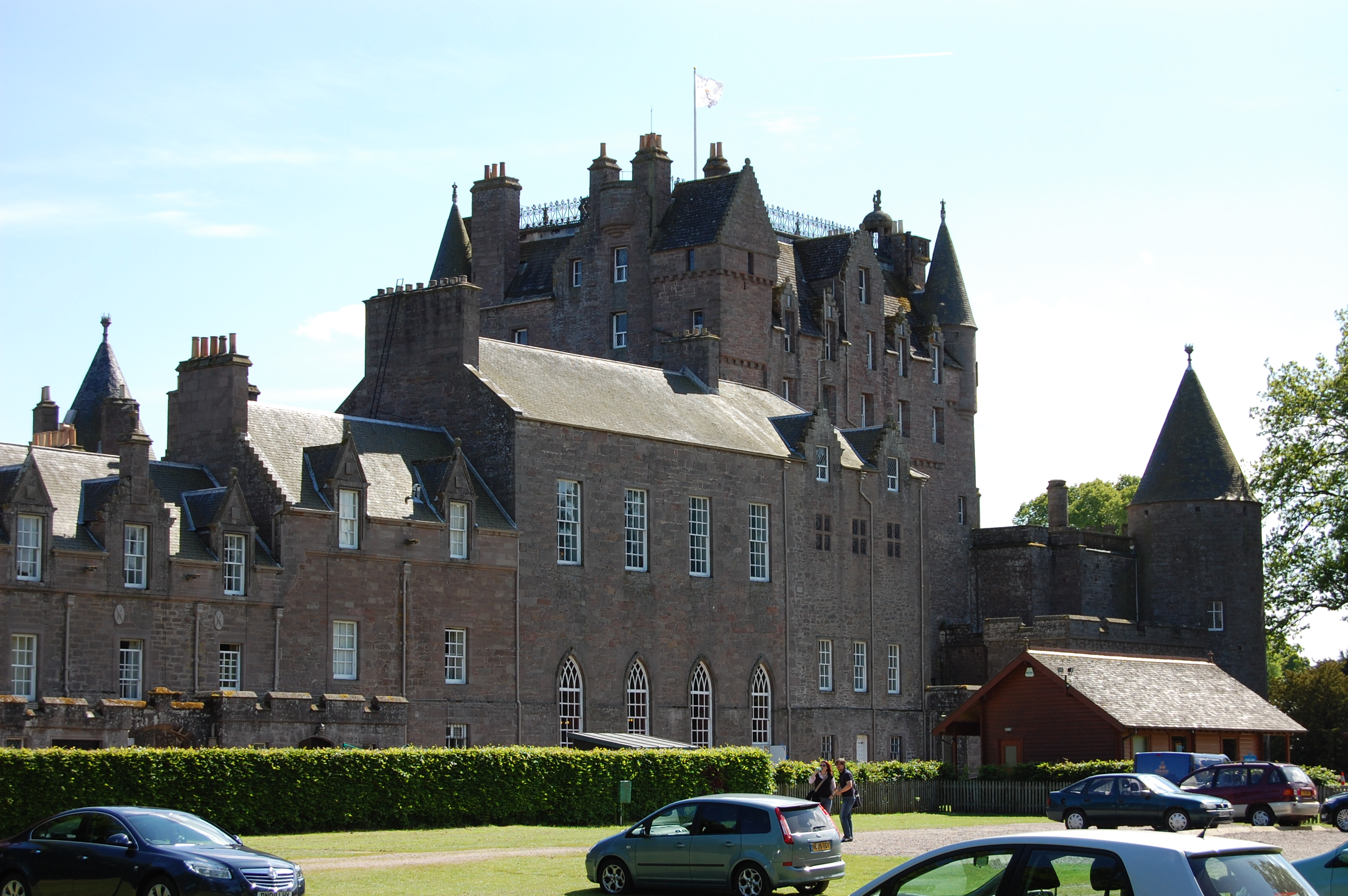 Back of Glamis Castle, in car park